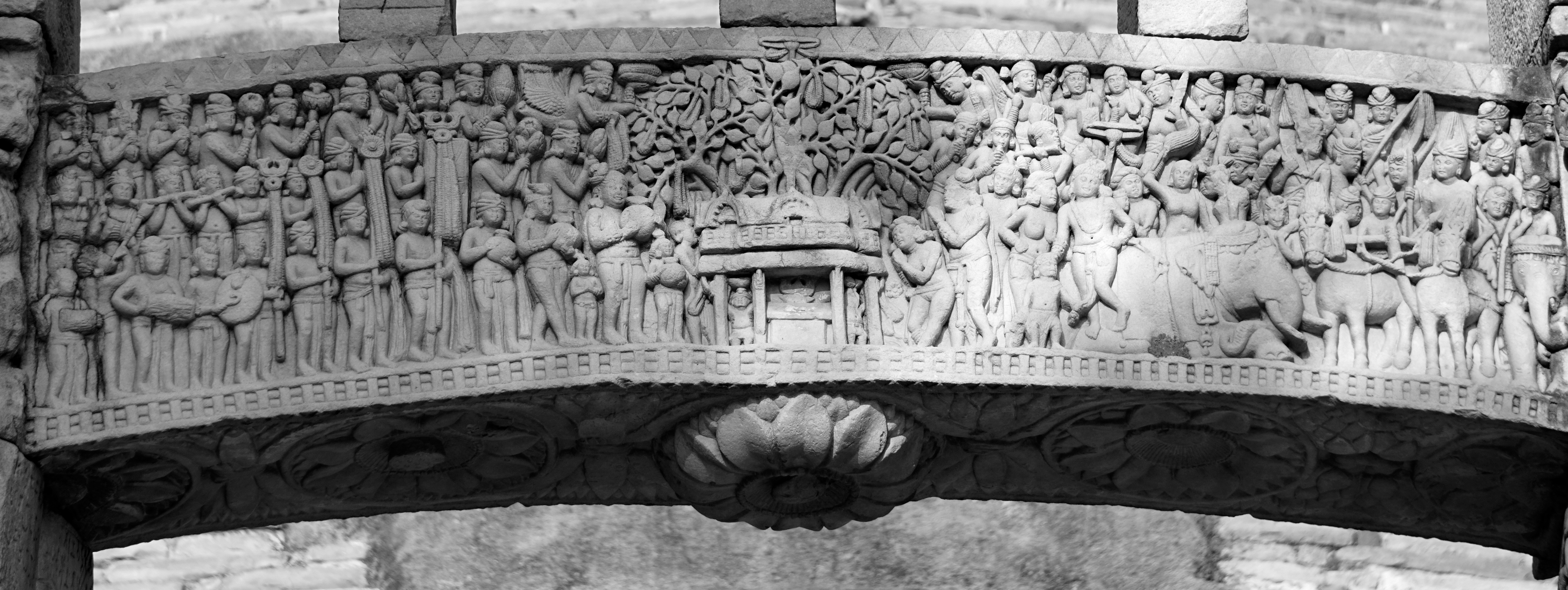 Sanchi Stupas, Southern Gateway, Stupa 1